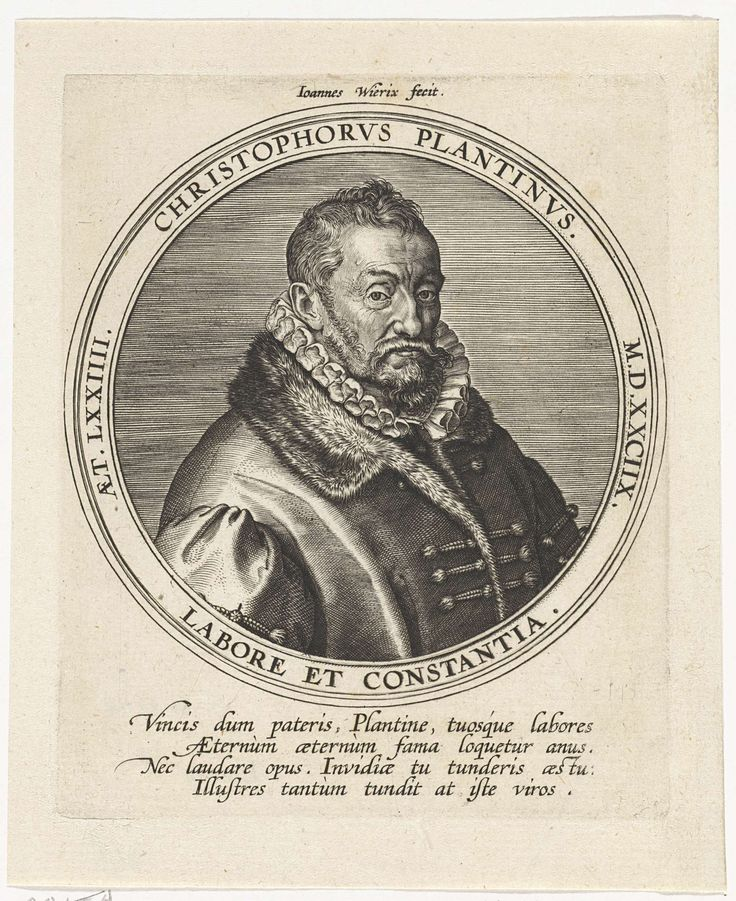 Portrait of Christophe Plantin